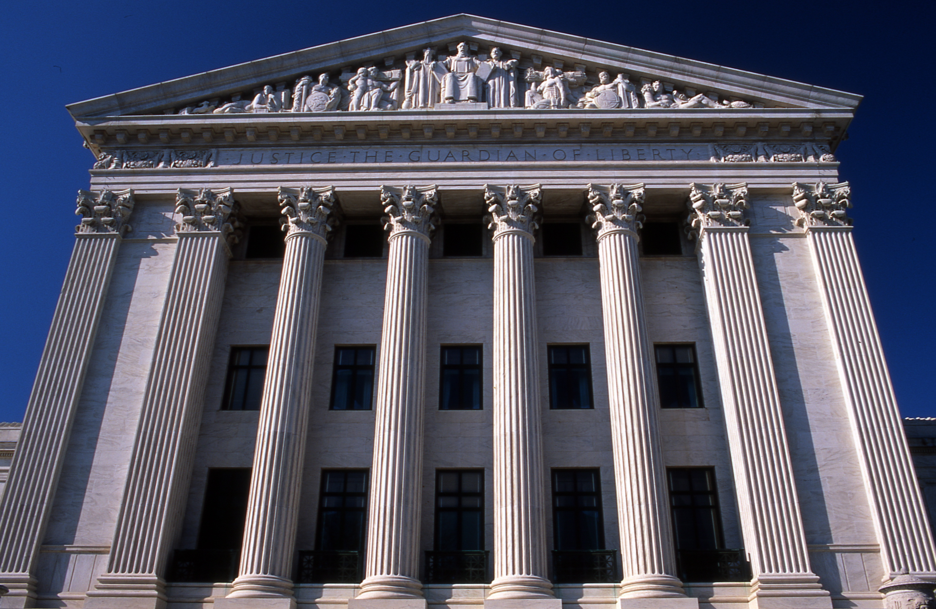 The east facade of the Supreme Court of the United States